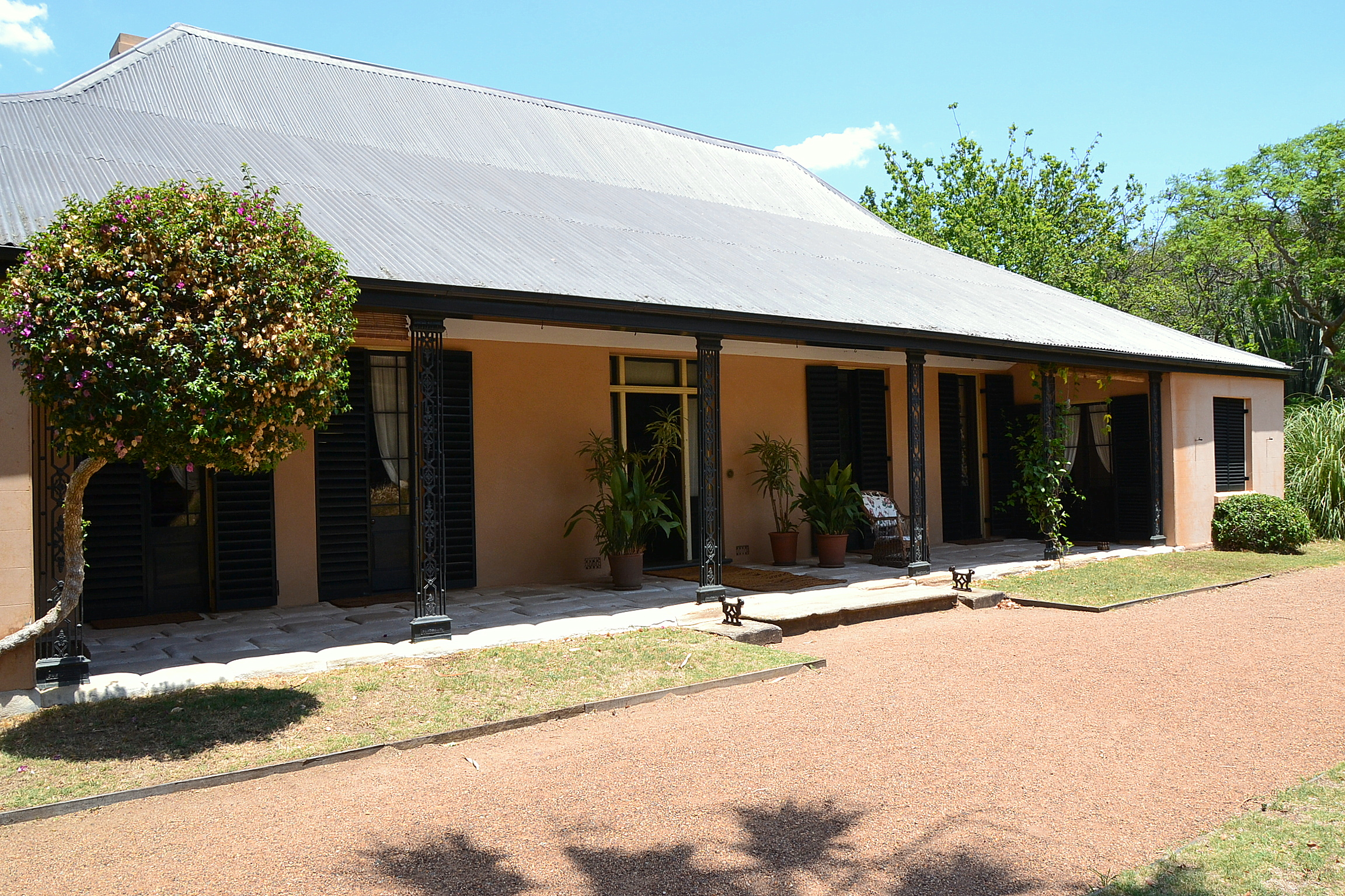 Elizabeth Farm, Harris Park, Sydney